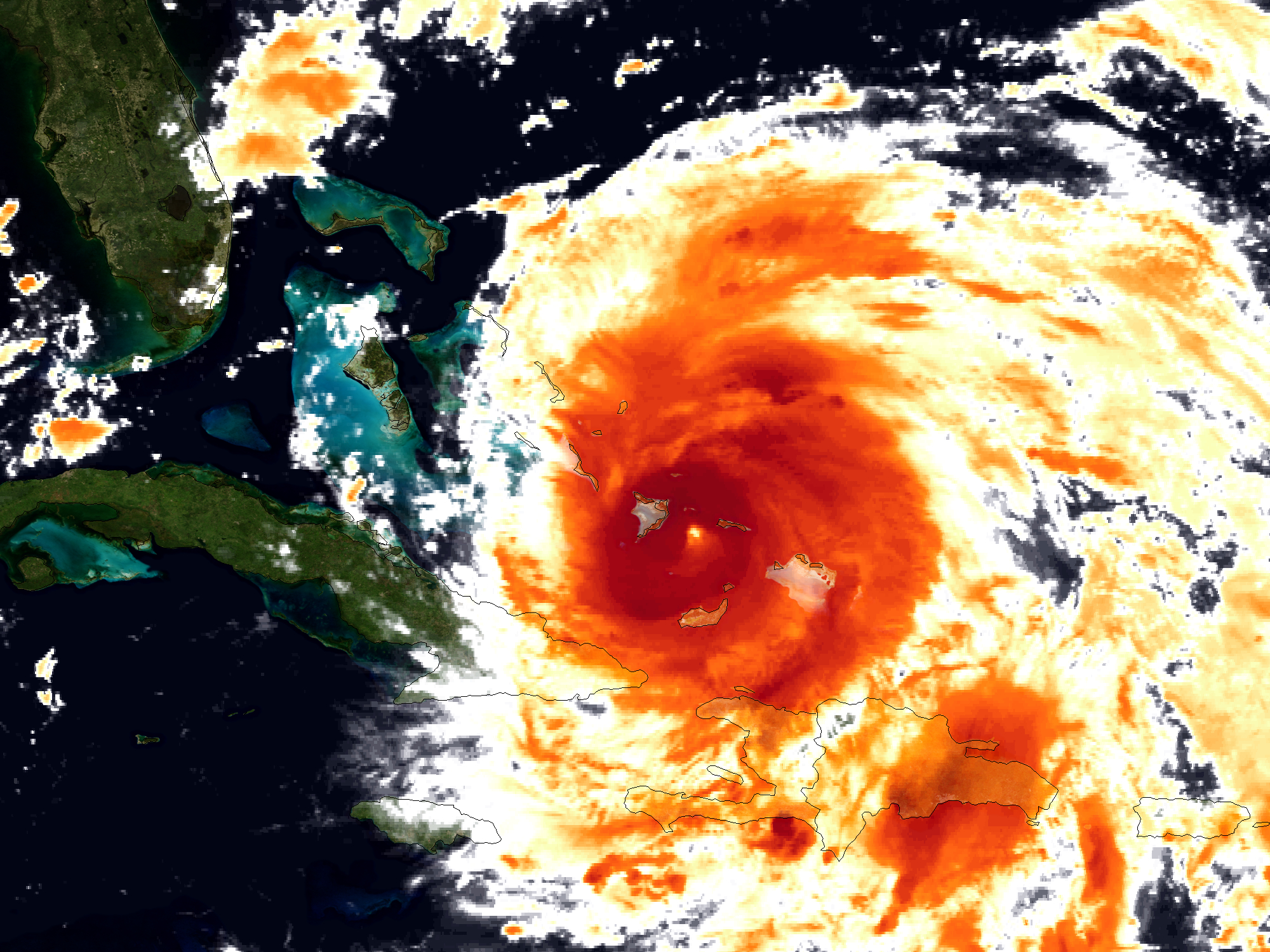 After weakening slightly overnight, Irene’s strength has come back with winds currently measured at 115 mph. The last hurricane hunter reconnaissance mission also measured a central pressure of 966 millibars – a decrease from the previous flight, and further indication of the storms organization and intensification. In fact, an eye can now be seen in satellite imagery. Shown here are colorized infrared and visible images from the GOES-East satellite taken on August 24, 2011 at 1315z. Throughout the day, Irene is predicted to strengthen, with winds of around 125 mph as it continues its projected path along the U.S coastline.